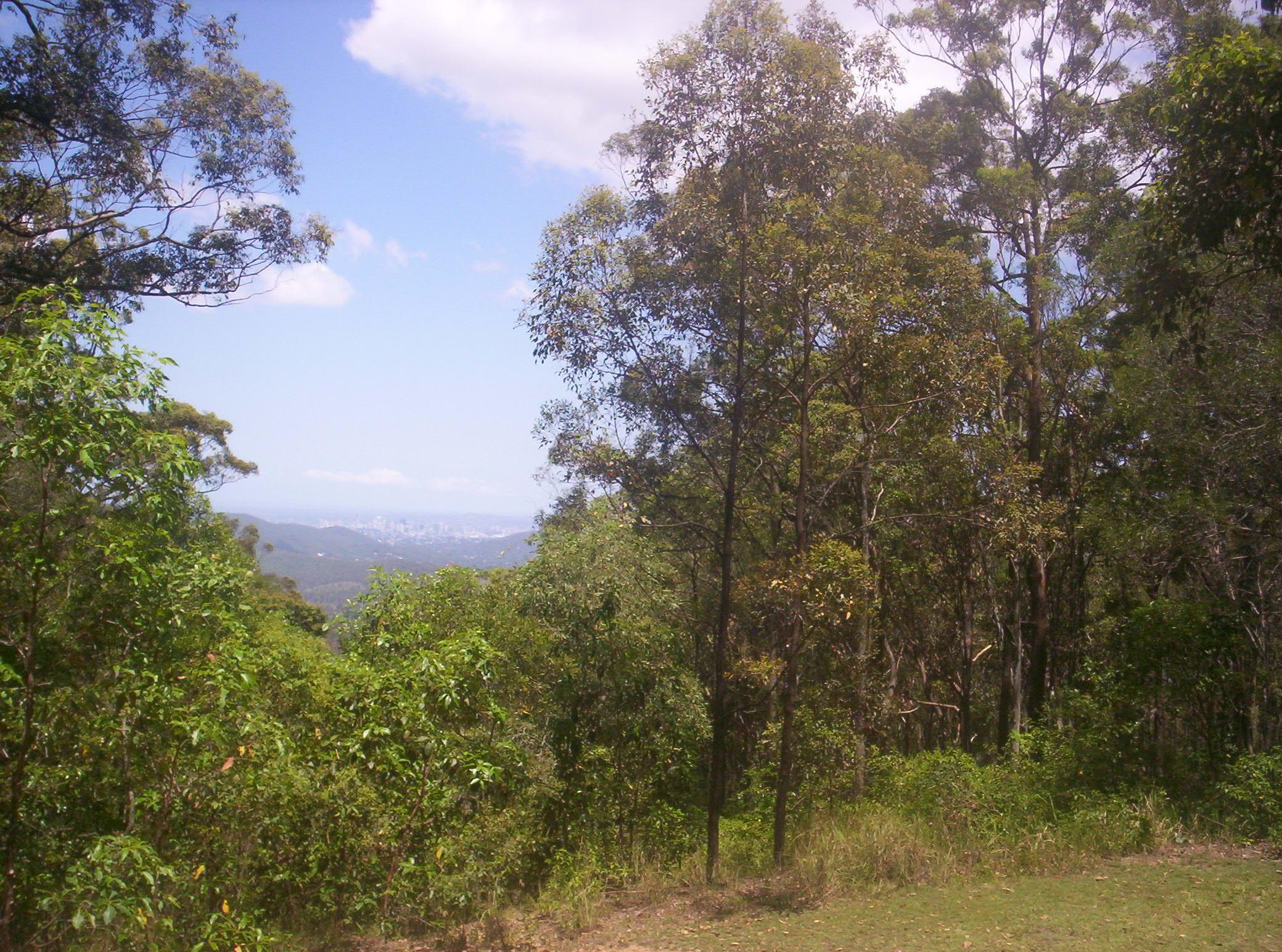 View of Brisbane city from Camp Mountain, Queensland ( this photograph was taken by Figaro )